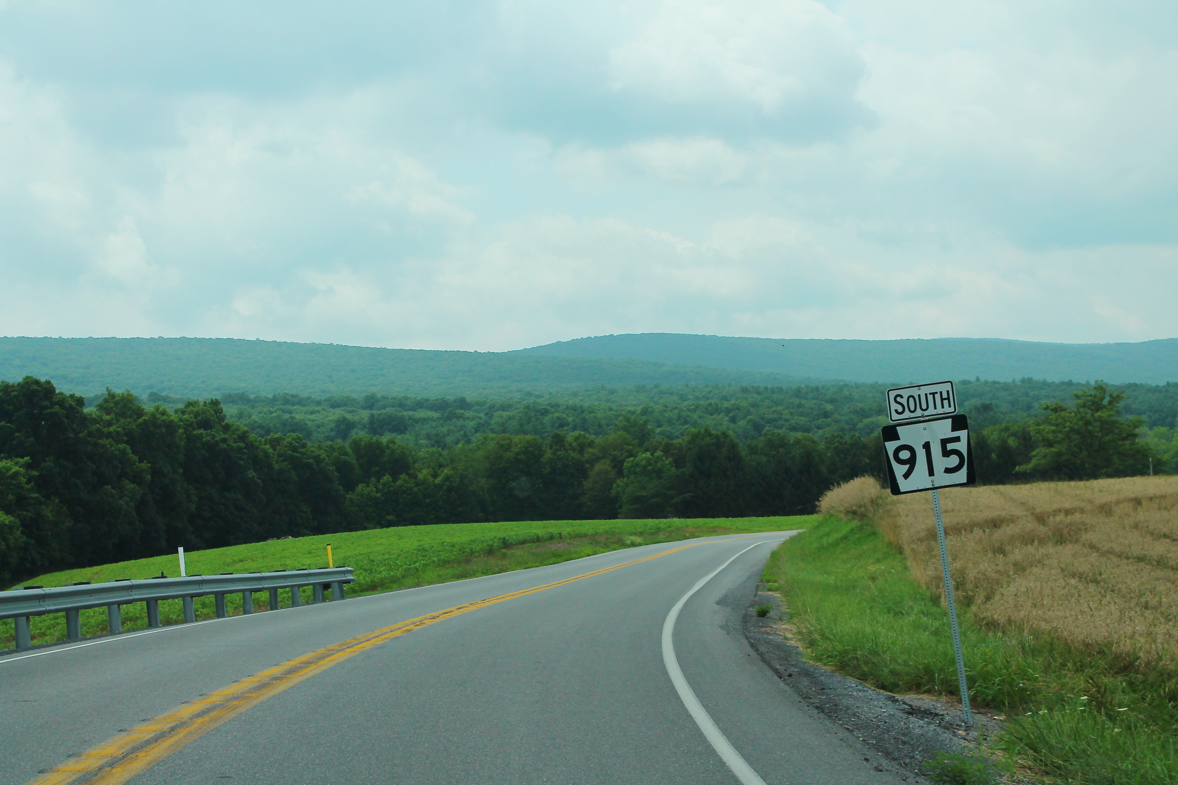 PA915sRoadCurveSign